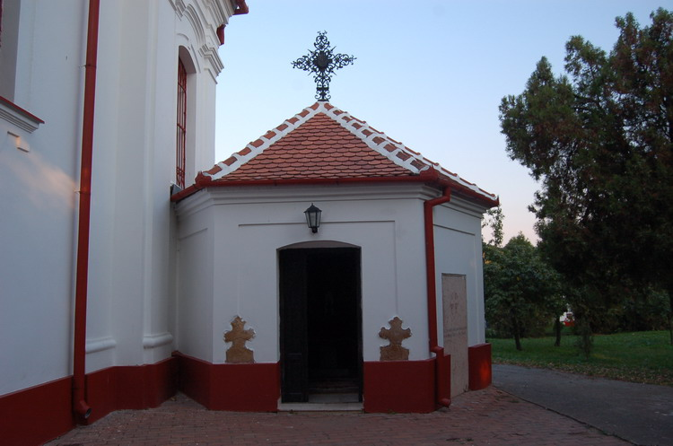 Chappel of Rafailo Banat